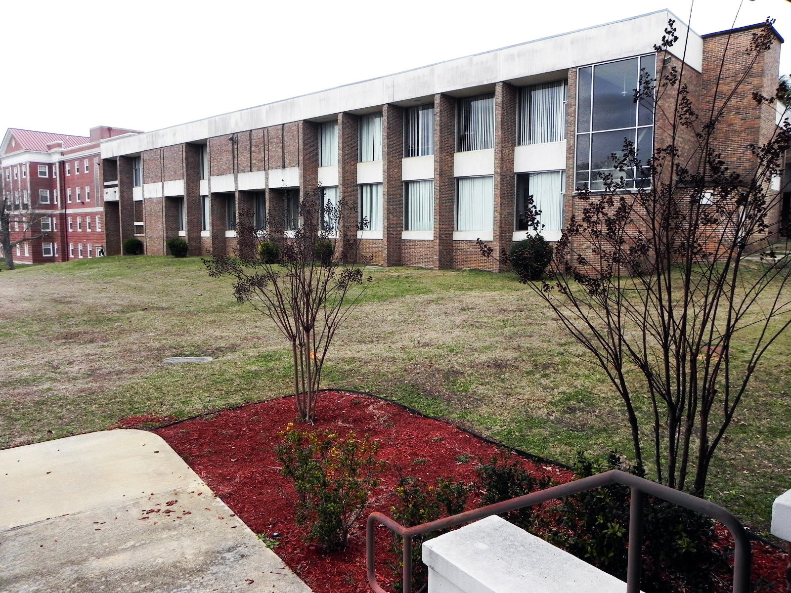 Tuskegee University School of Nursing -Basil O'Connor Hall. Tuskegee Institute Training School of Nurses was registered with the State Board of Nursing in Alabama in September 1892 under the auspices of Tuskegee University's John A. Andrew Memorial Hospital. In 1948, the School began its baccalaureate program leading to the Bachelor of Science degree in Nursing. This program has the distinction of being the first Baccalaureate Nursing program in the State of Alabama.